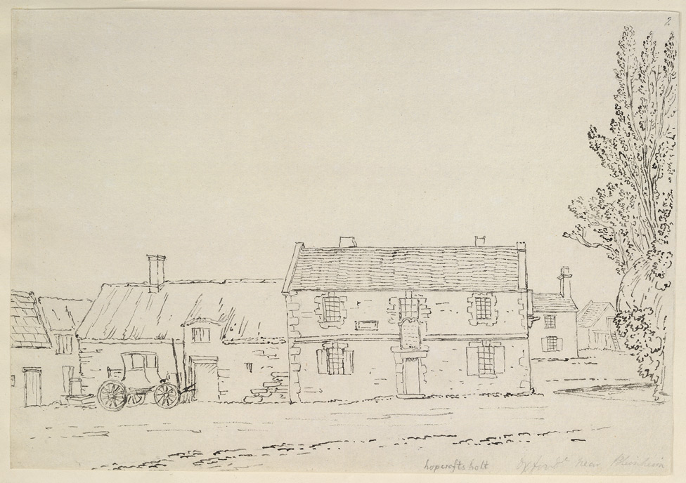 drawing by Samuel Hieronymus Grimm view of the coaching inn at Hopcroft's Holt near Steeple Aston, Oxfordshire